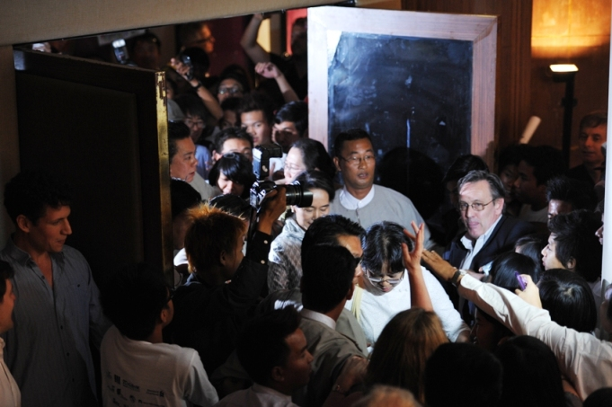 Aung San Suu Kyi entering a room at the Festival